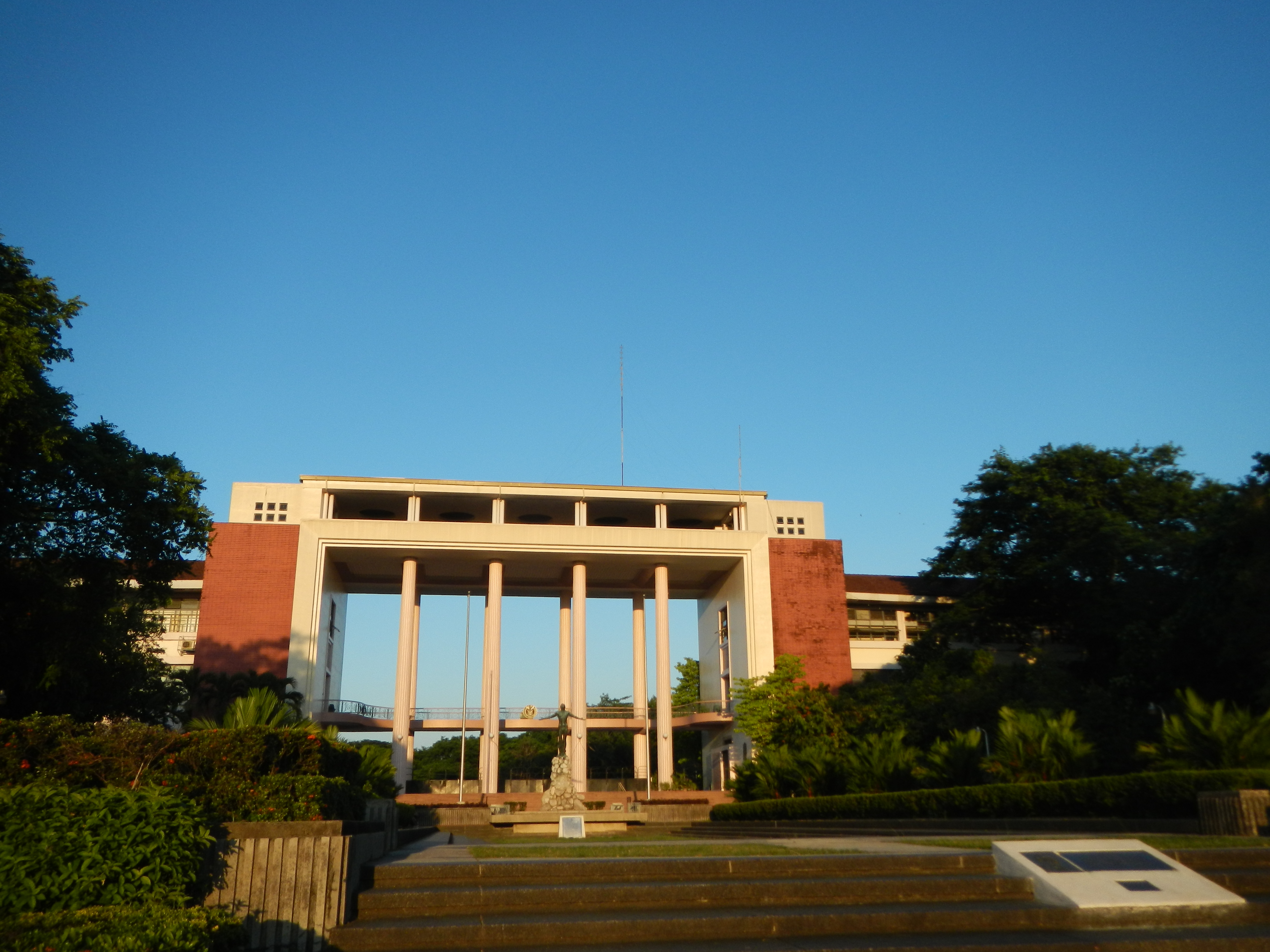 University of the Philippines Diliman[1]